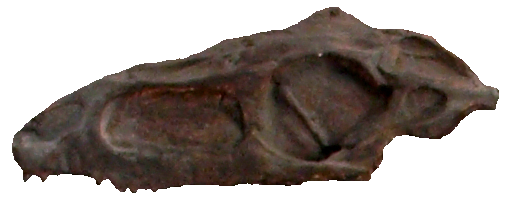 The skull of Turfanosuchus, a Chinese archosauromorph from the Middle-Triassic period. This carnivorous reptile was around 3 m long.